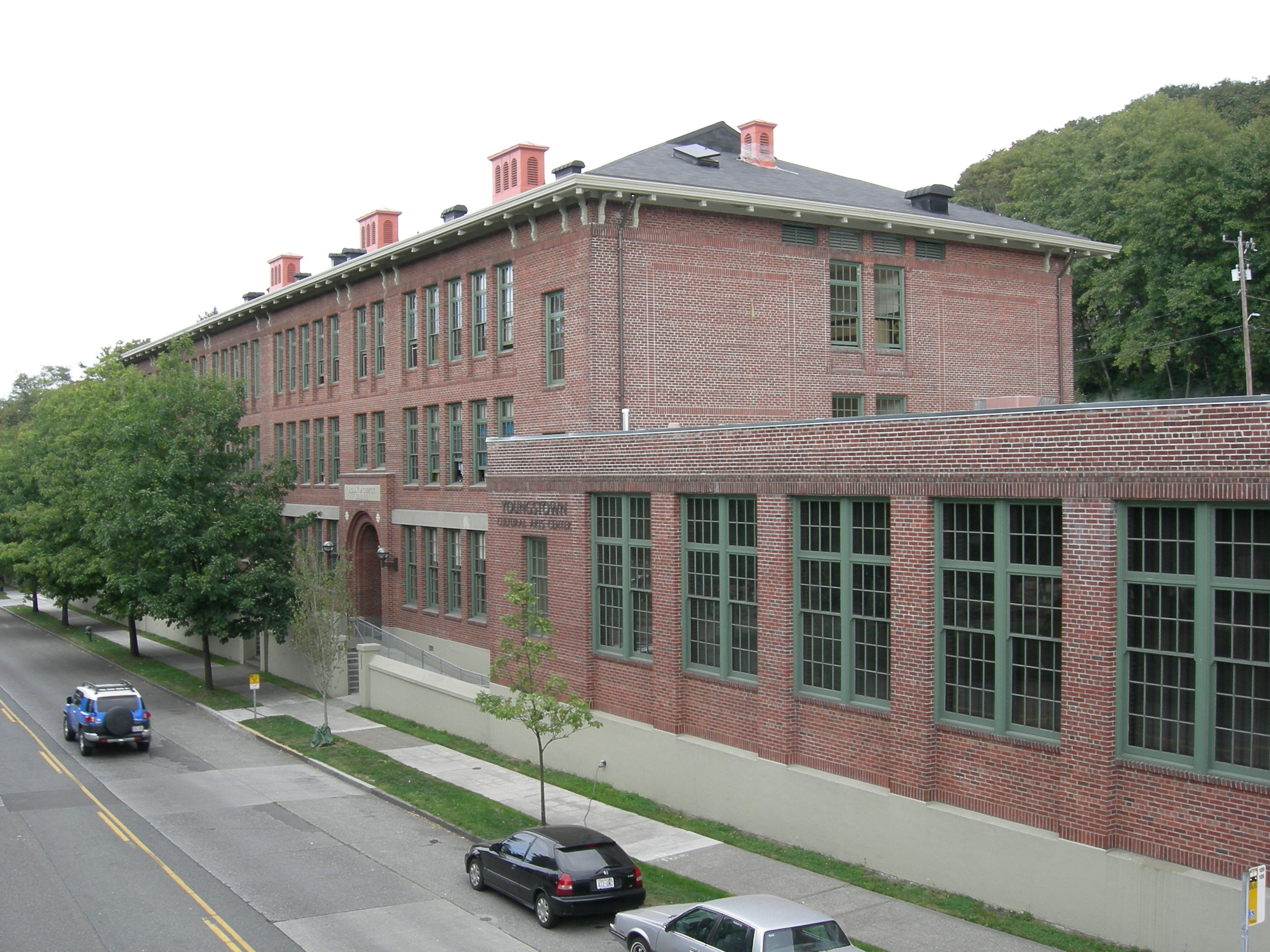 Old Frank B. Cooper Elementary School (Youngstown School, 1917, renamed 1939, now Youngstown Cultural Arts Center and residences), Delridge Way, in the Youngstown (North Delridge) neighborhood of Seattle, Washington, USA. Listed in the National Register of Historic Places, ID #03000161.